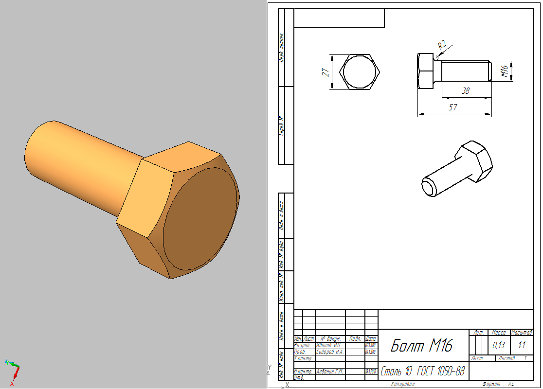 bolt 3D model and drawing